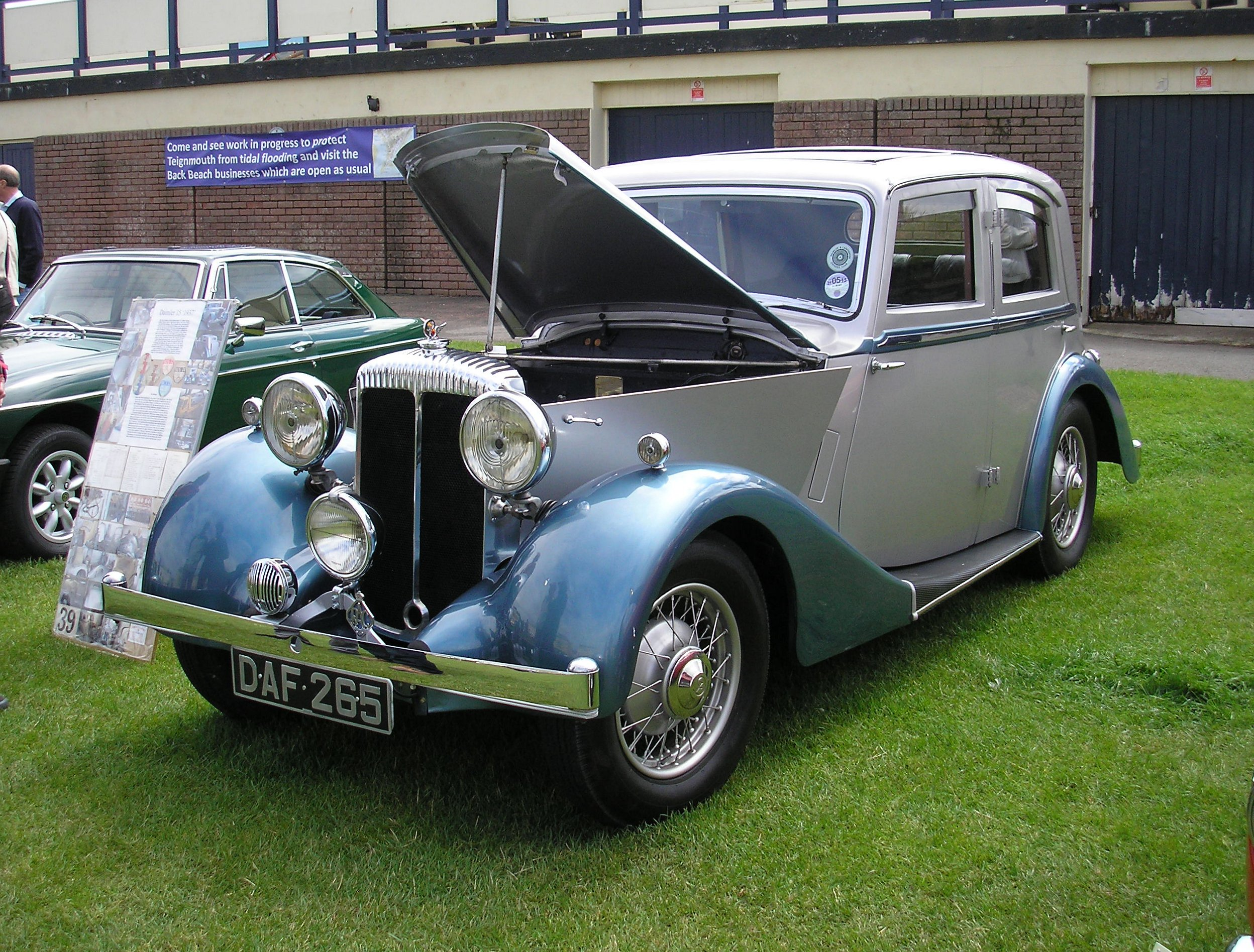 Daimler Fifteen 4-light 4-door sports saloon 1937 Teignmouth 01 July 2012 Camera: Olympus FE-120 6.0 Digital